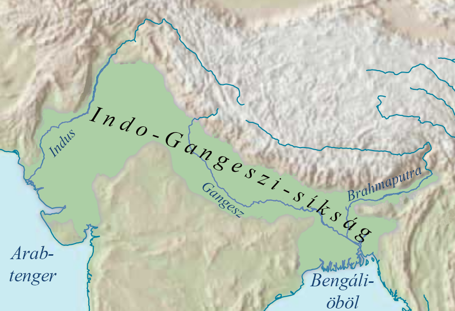 Indo-Gangeszi-síkság. Indo-Gangetic Plain